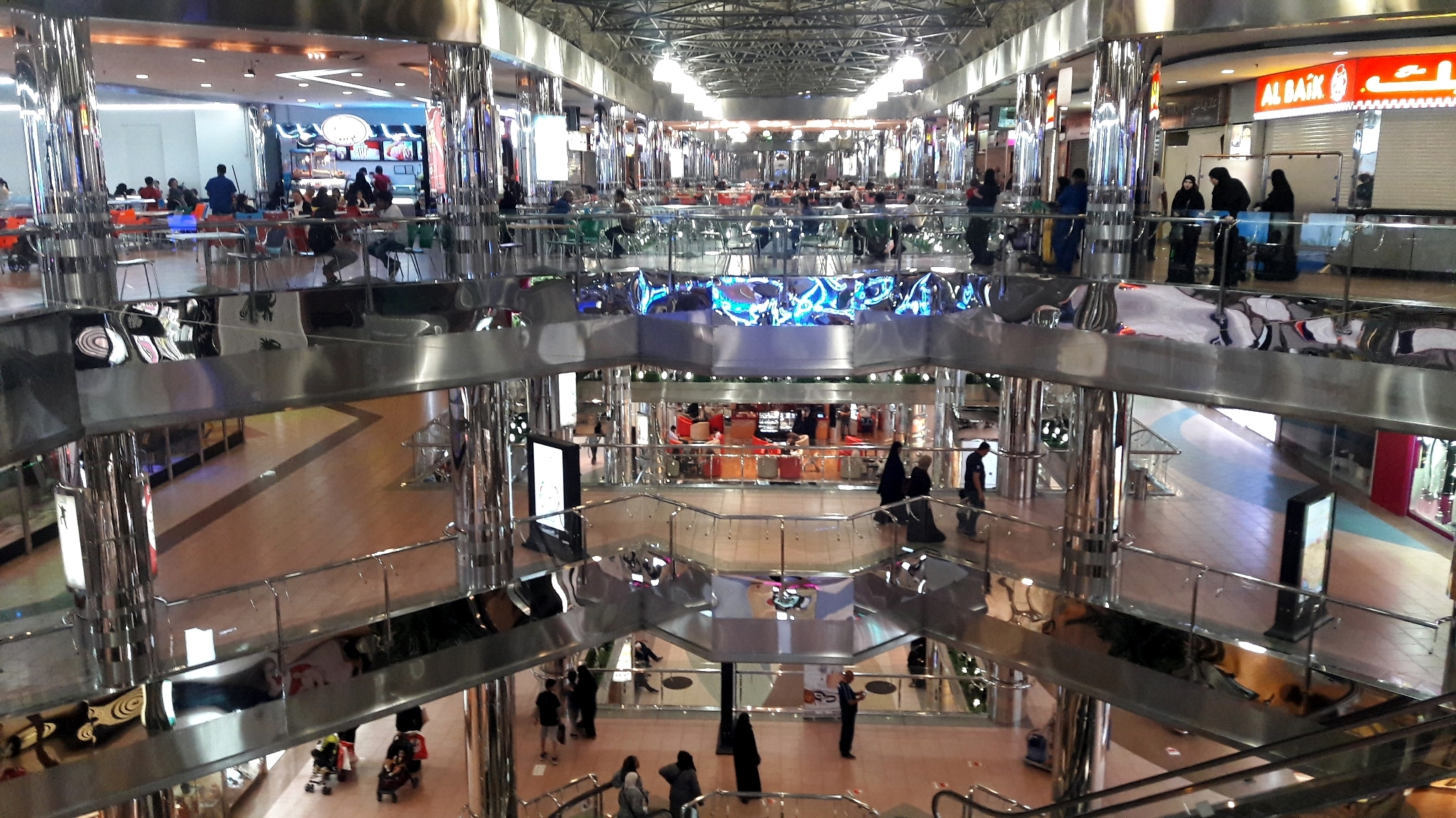 Serafi Mega Mall, Jeddah